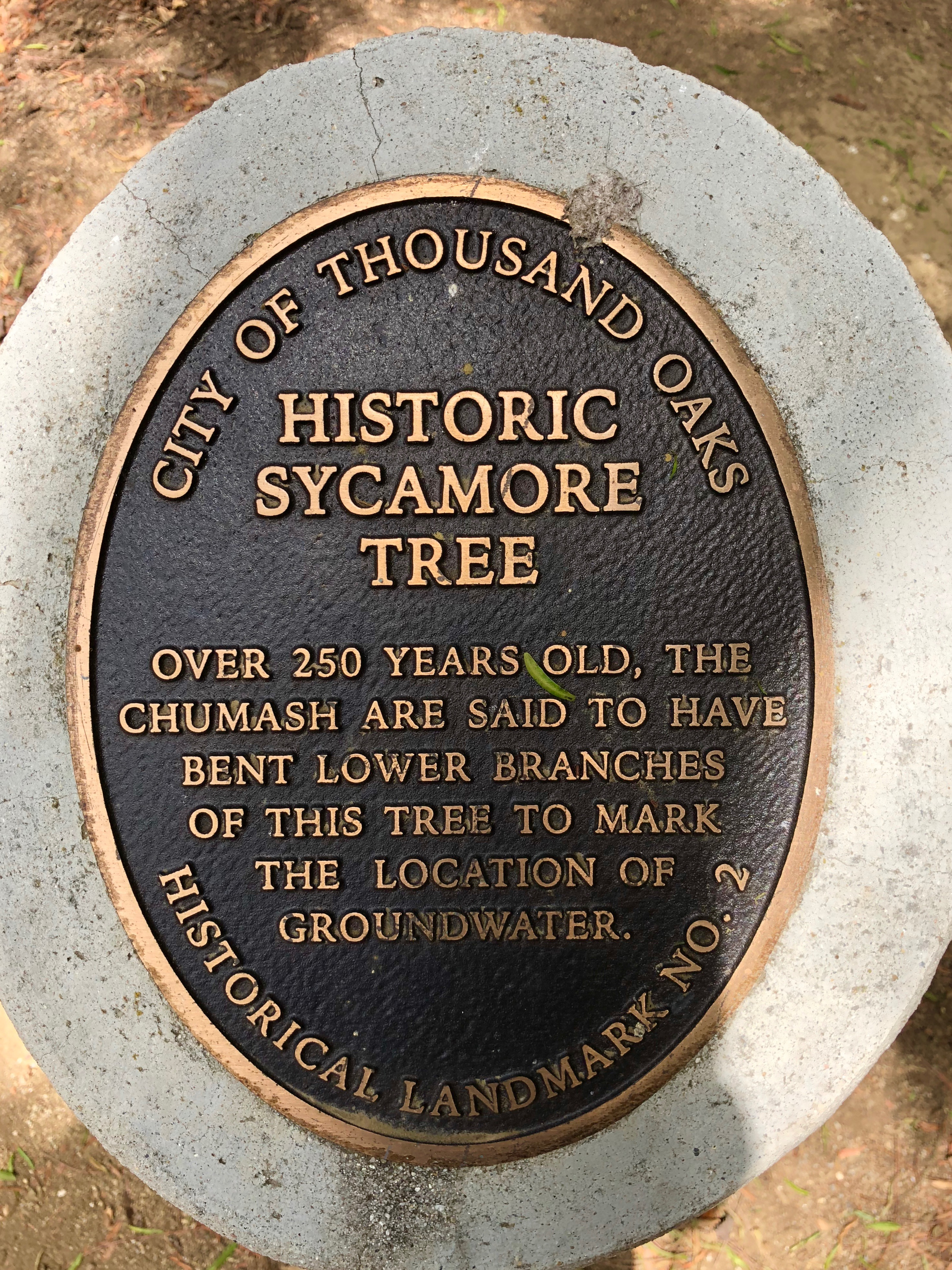 Plaque by the Historic Sycamore Tree at Stagecoach Inn, Newbury Park.